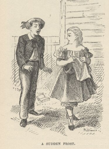 Illustrations de The Adventures of Tom Sawyer, 1876.